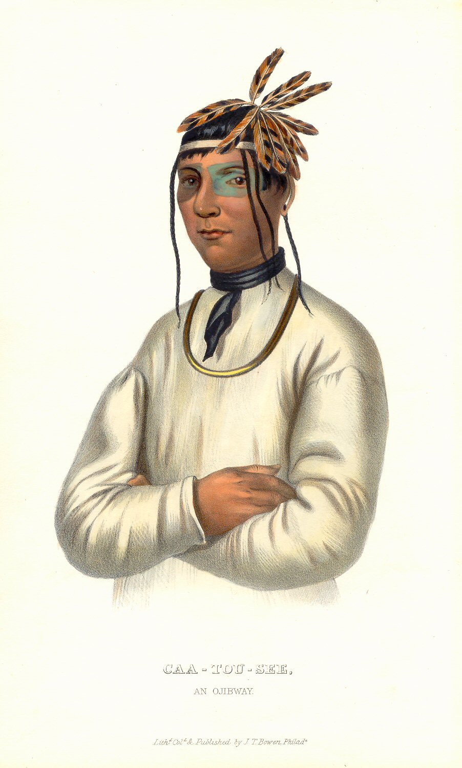 Caa-tou-see, an Ojibway, painted by Charles Bird King Lithographed, colored and published ca. 1836-44 by J.T. Bowen, Philadelphia. SI.1990.004 H.10 1/4" X W.6 3/8" (octavo)